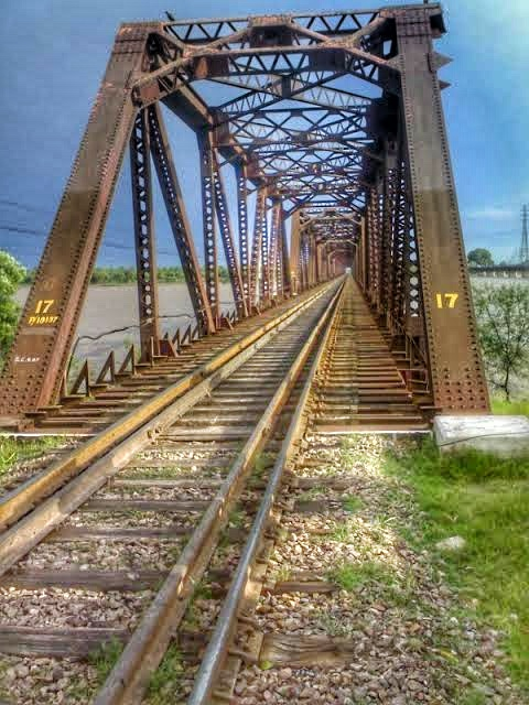 The Chenab Railway Bridge Built in 1878 By the Prince Of Wales.